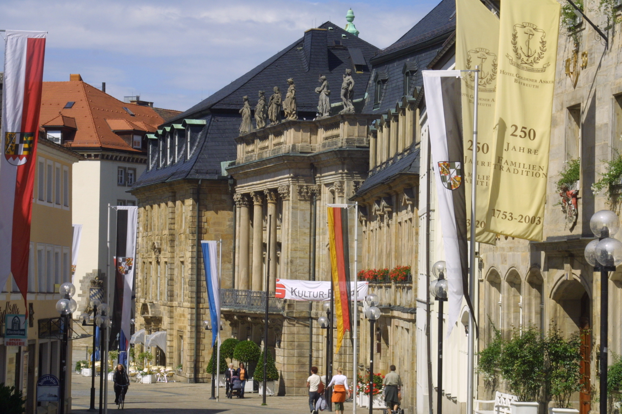 Bayreuth, Markgräfliches Opernhaus